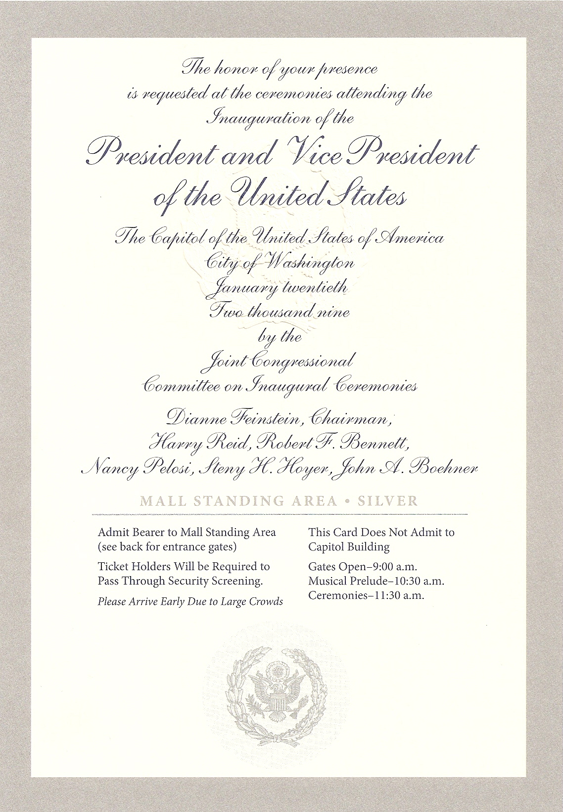 Front image of one of the official color-coded public invitations (silver ticket) to the 2009 U.S. presidential inaugural ceremony of Barack Obama that was distributed by members of the 111th U.S. Congress.